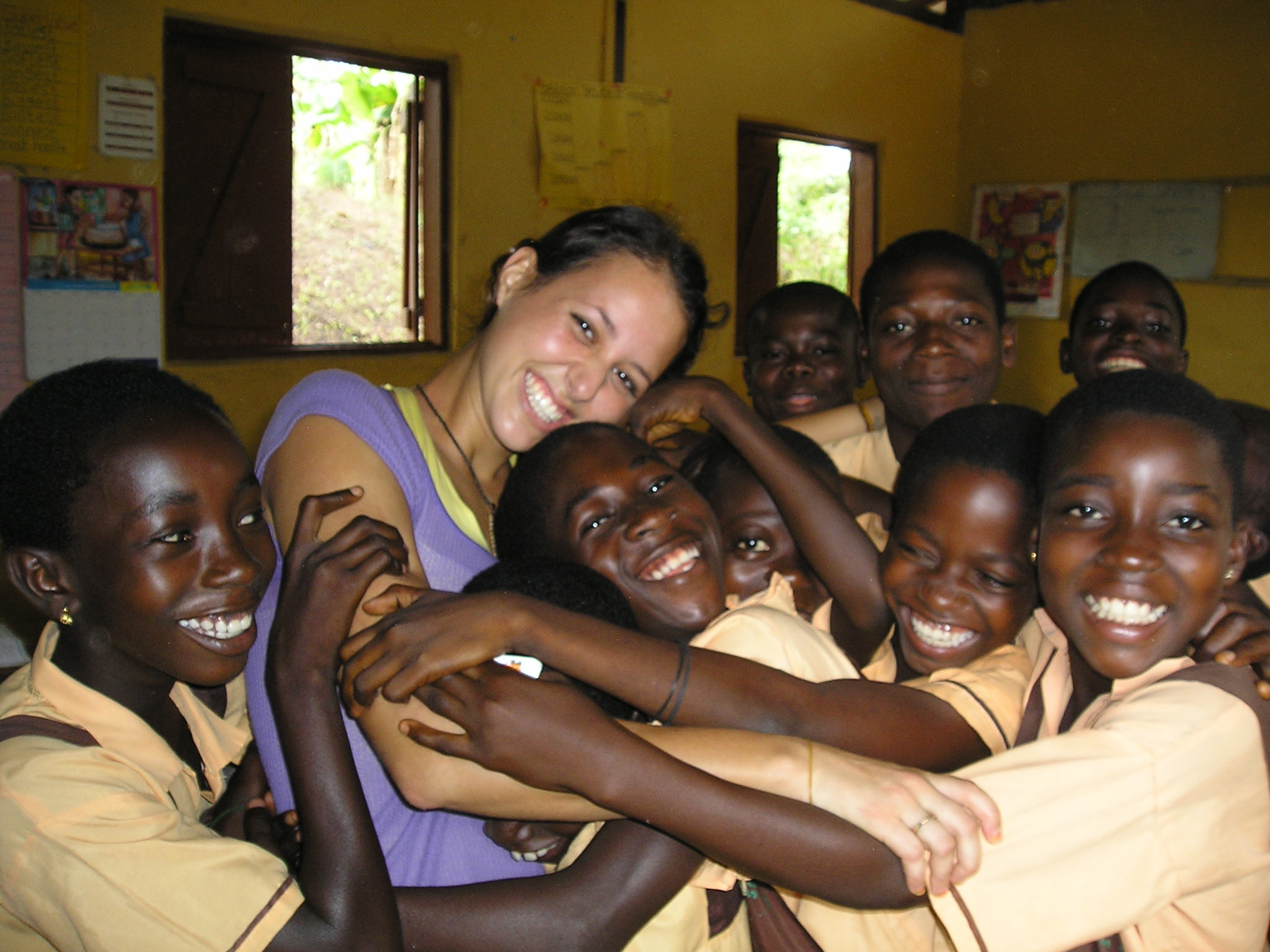 Volunteer with her students in Ghana